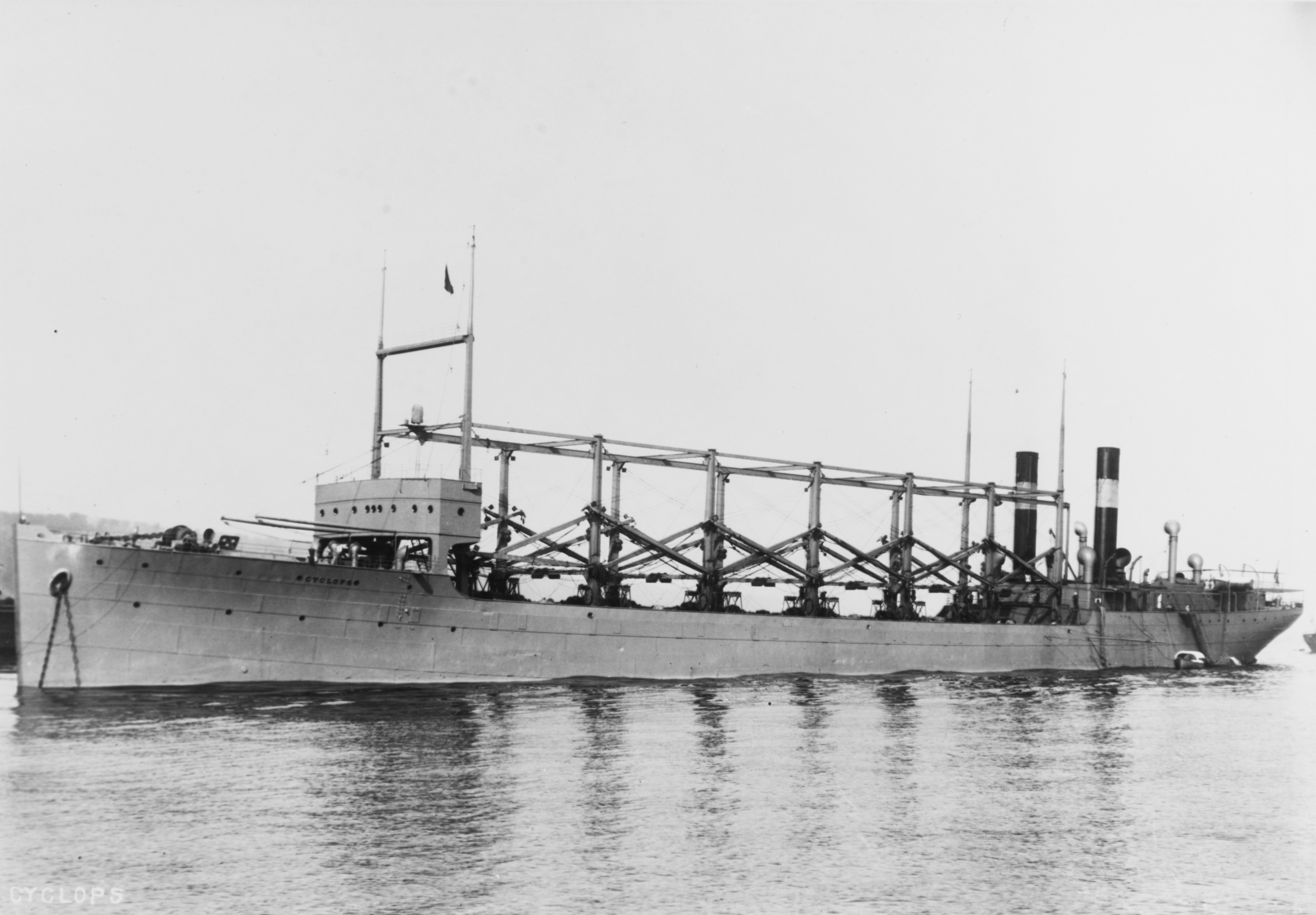 USS Cyclops (1910-1918)